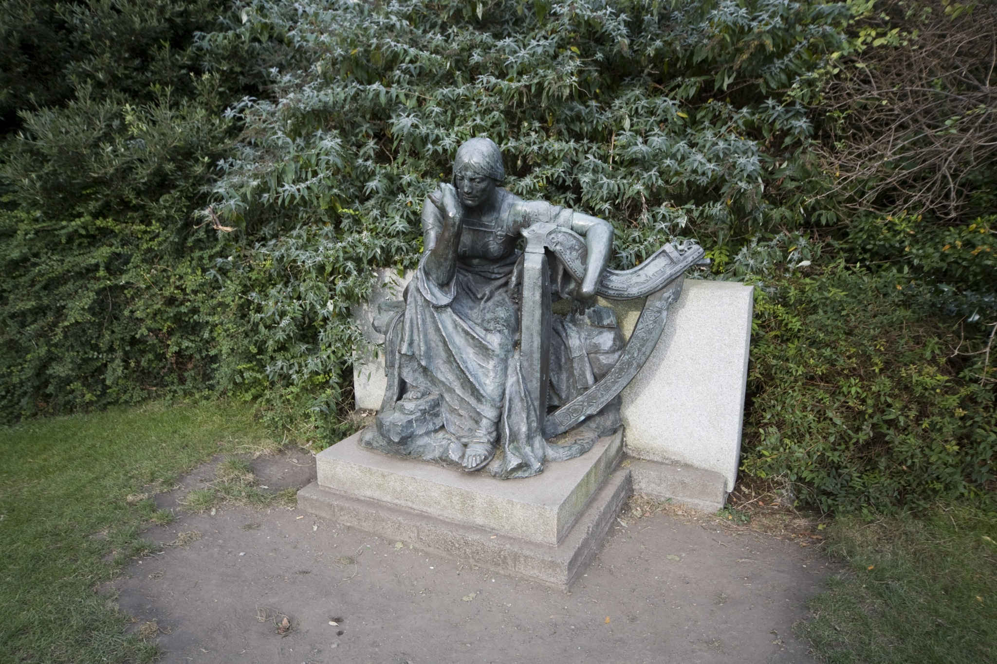 Statue named Éire in Merrion Square, Dublin. Originally intended as a memorial to the Kerry Poets and to be placed in Killarney, it was not finished in the sculptor's lifetime. Connor presented in October 1931 a scale model, at full scale it was ready for casting in 1932, but it wasn't cast until 1974.[1]